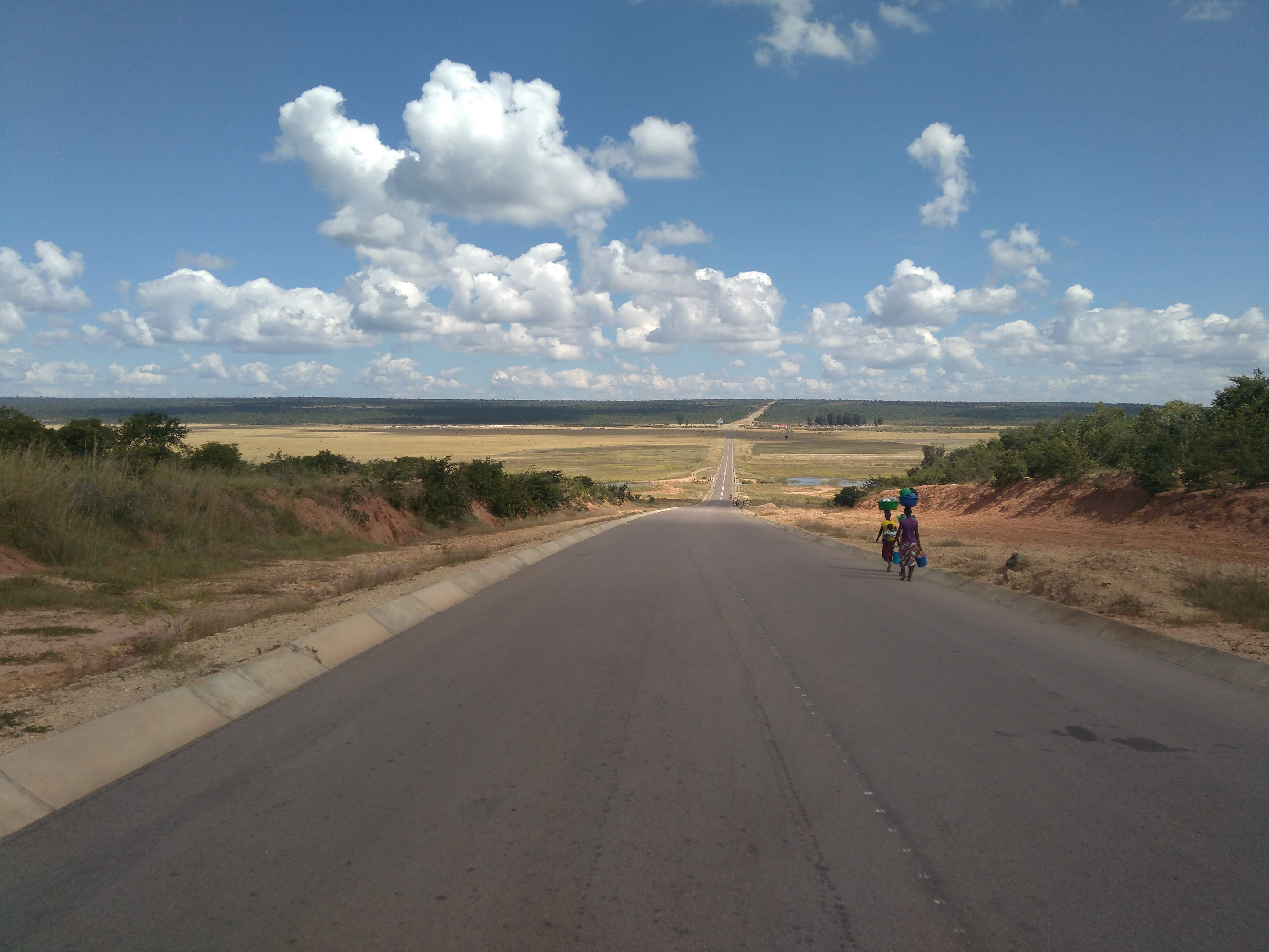 Walking for miles on end, they carry baskets on their heads with clothes to clean on the nearby river for a good few hours. Along with the baskets, a mother carries a child on her back. This is an image of "African people at work" from Angola